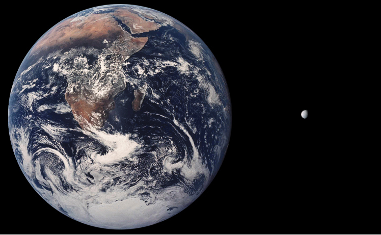 Enceladus Earth comparison at the same scale (about 29 km/px) as the other images from the series.